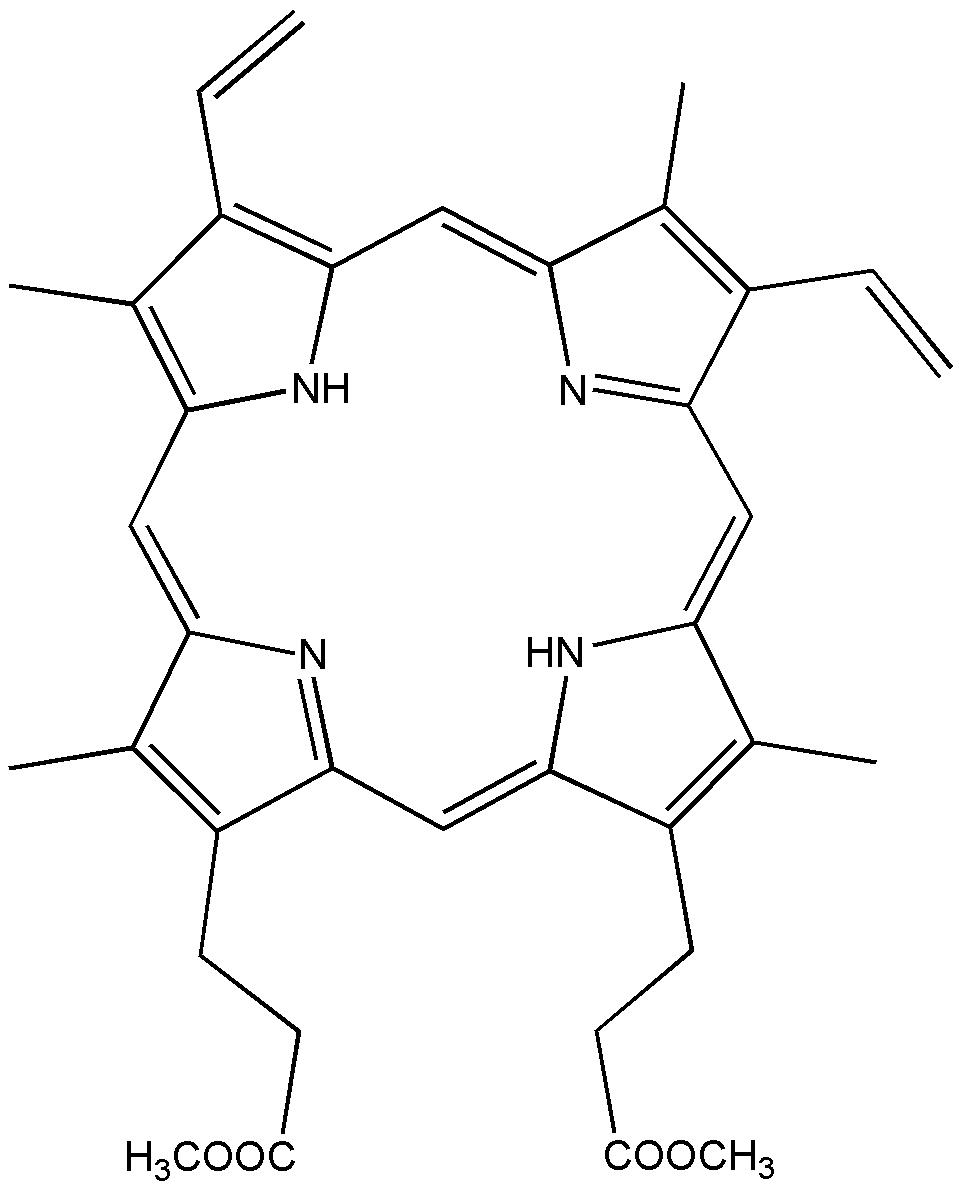 Protoporphyrin-IX-methylester